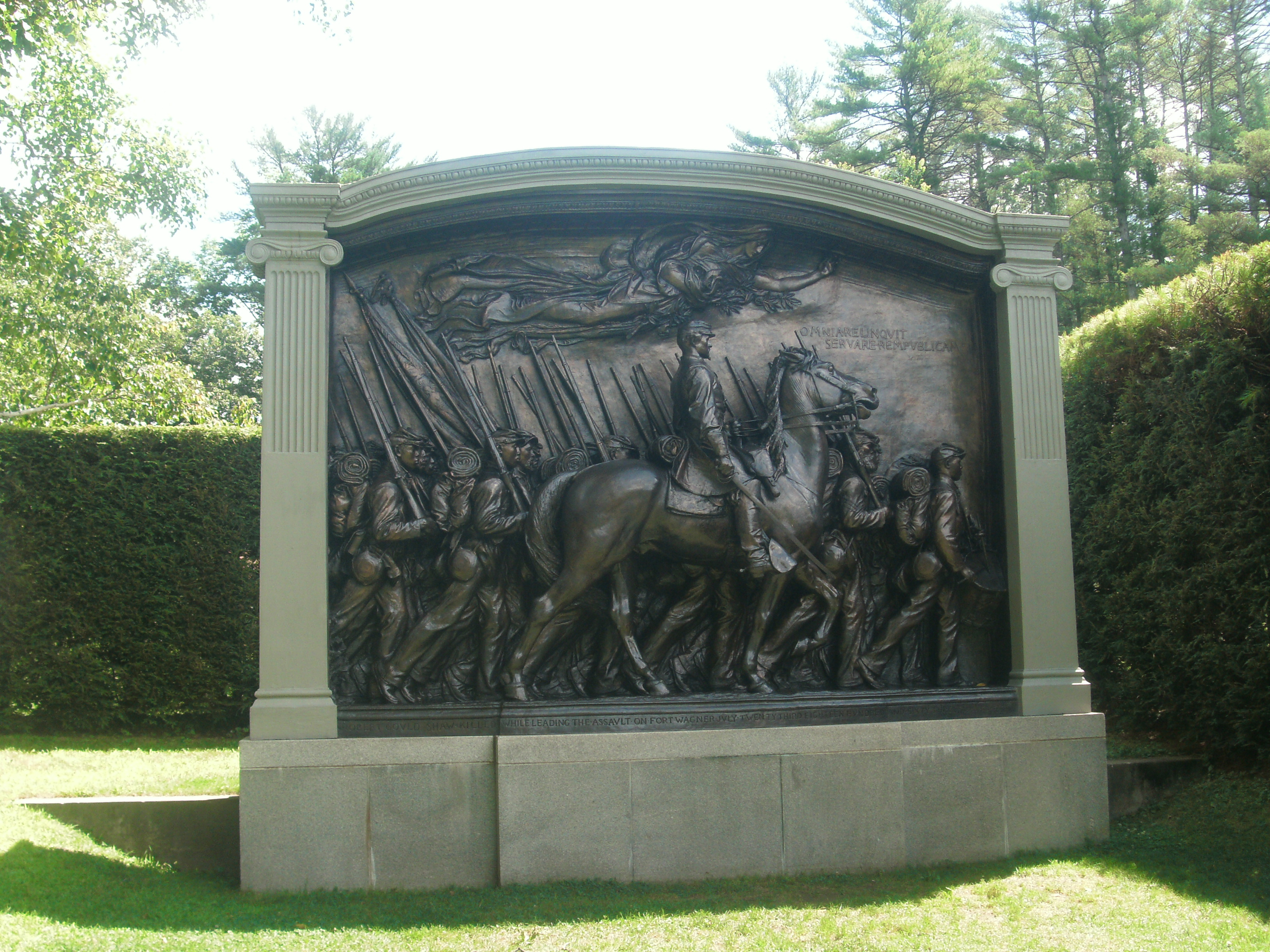 Augustus Saint-Gaudens Memorial, Cornish